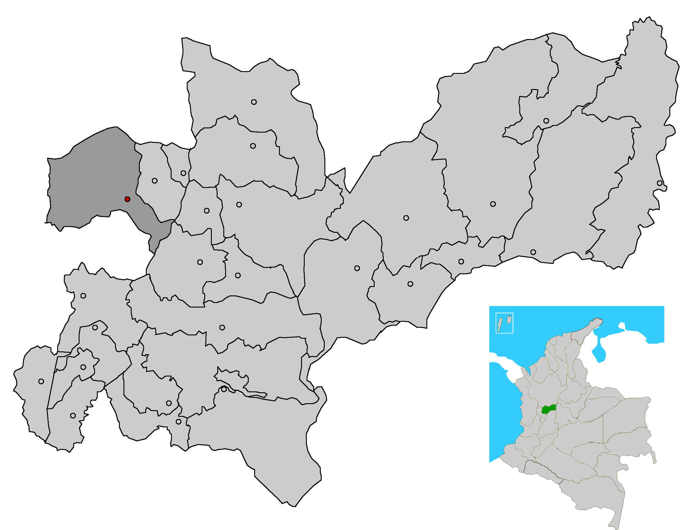 Image depicting map location of the town and municipality of Riosucio in Caldas Department, Colombia